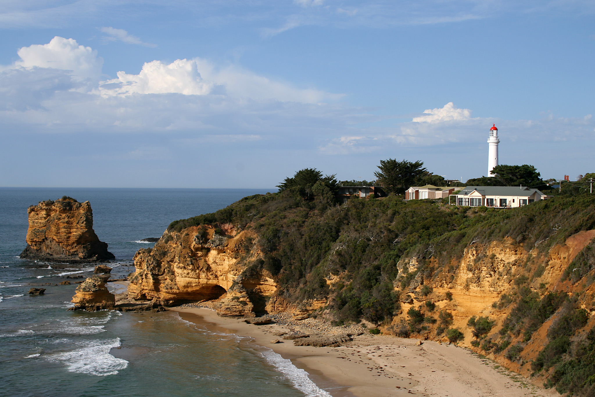 Split Point Lighthouse, Aireys Inlet, Victoria, Australia